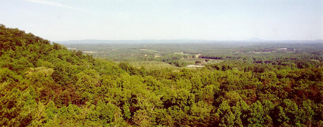 I took this picture on May 30, 2000. Don't try this from a moving car!